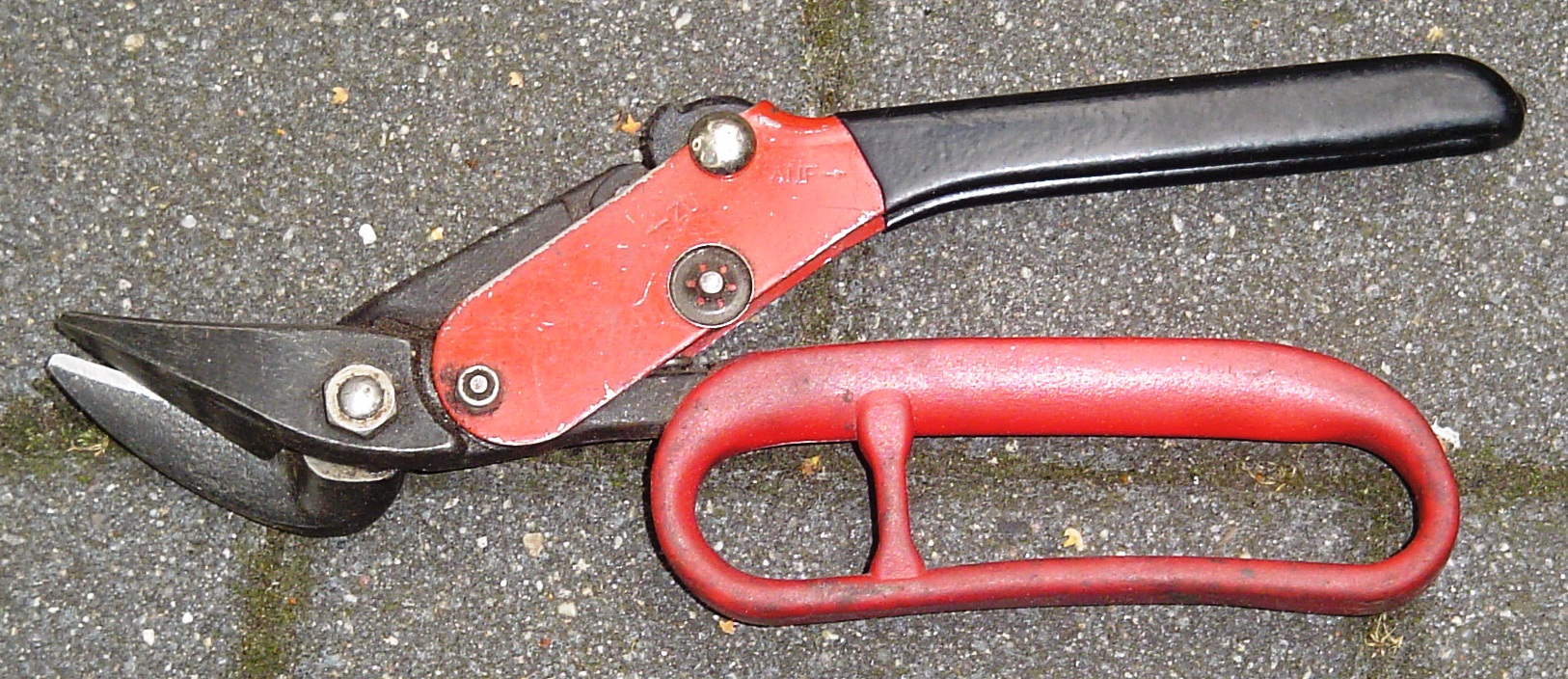 Compound-action offset snips